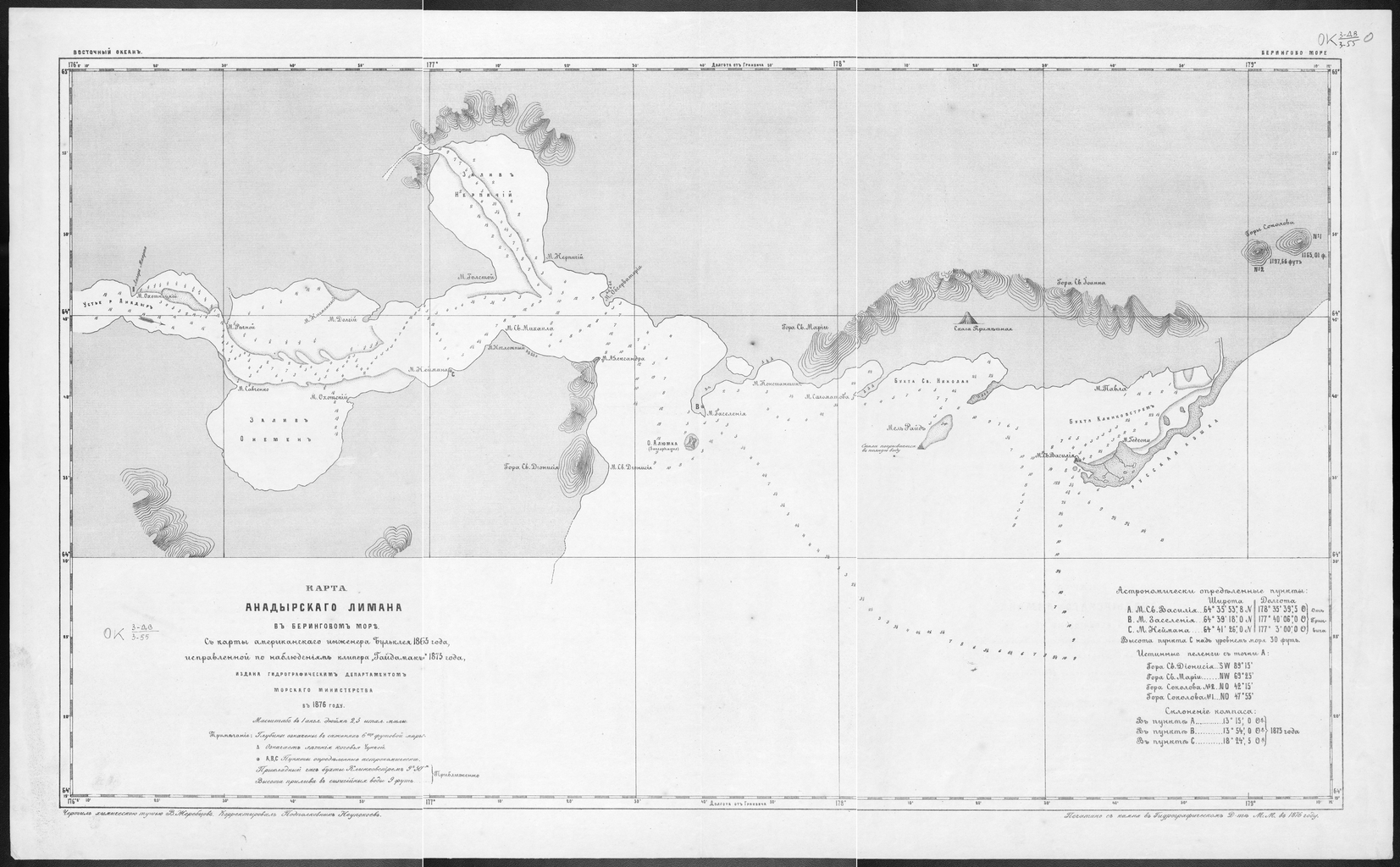 This map was intended for use by mariners. The table at the right contains detailed navigational information, including a list of true bearings from point A and compass variations at points A, B, and C. Also shown are summer nomadic camps of the Chukchi, sandbars, and cliffs. In August 1889, some 13 years after this map was created, a Russian expedition founded the settlement of Novo-Mariinsk at this location. The easternmost town in Russia, it was renamed Anadyr' in 1923. Bering Sea